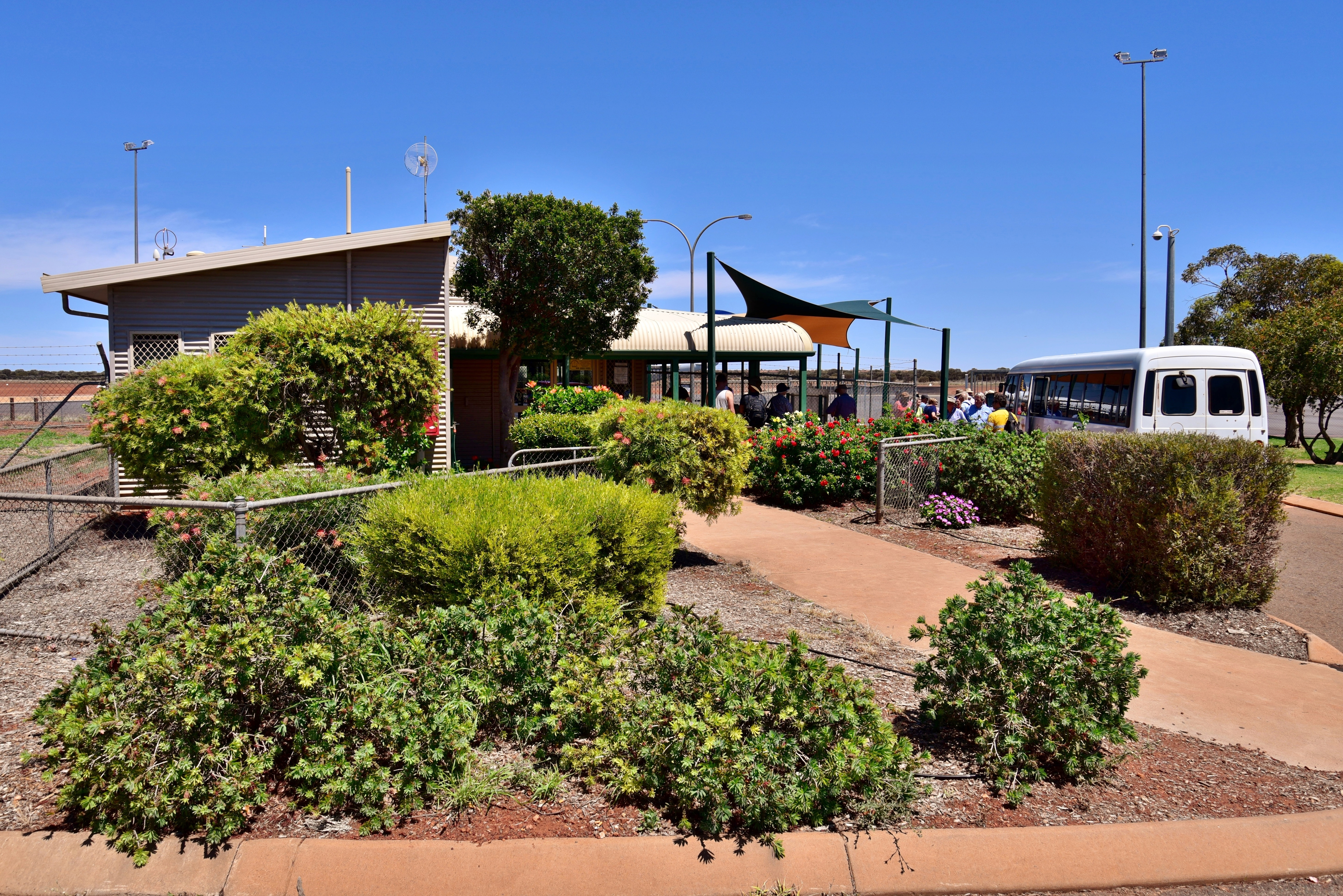 View of the terminal at Leonora Airport, Western Australia